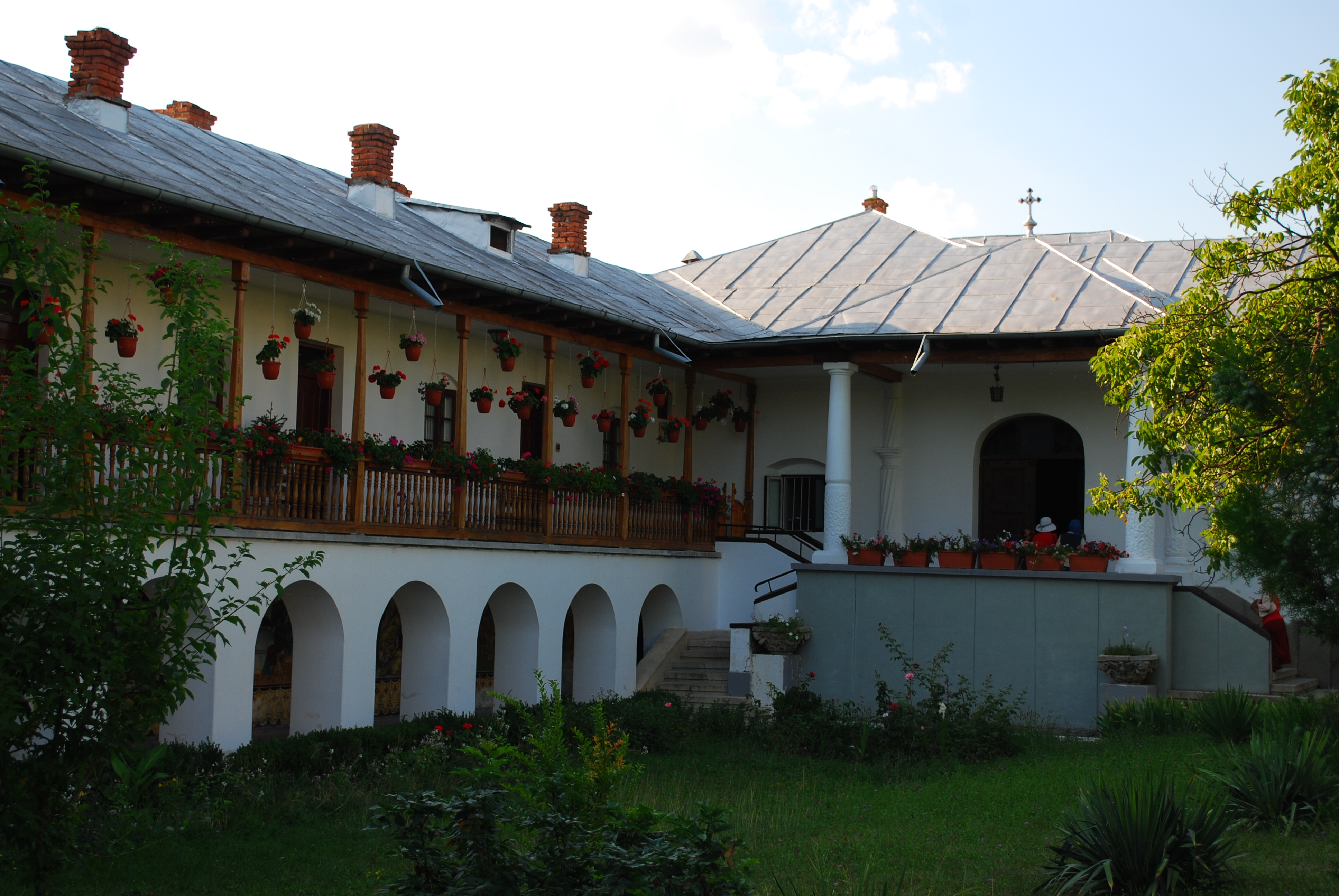 Monks' housing units in Cernica monastery, Pantelimon, Ilfov County, RomaniaRomână: Chilii monahale la mănăstirea Cernica, Pantelimon, judeţul Ilfov, România